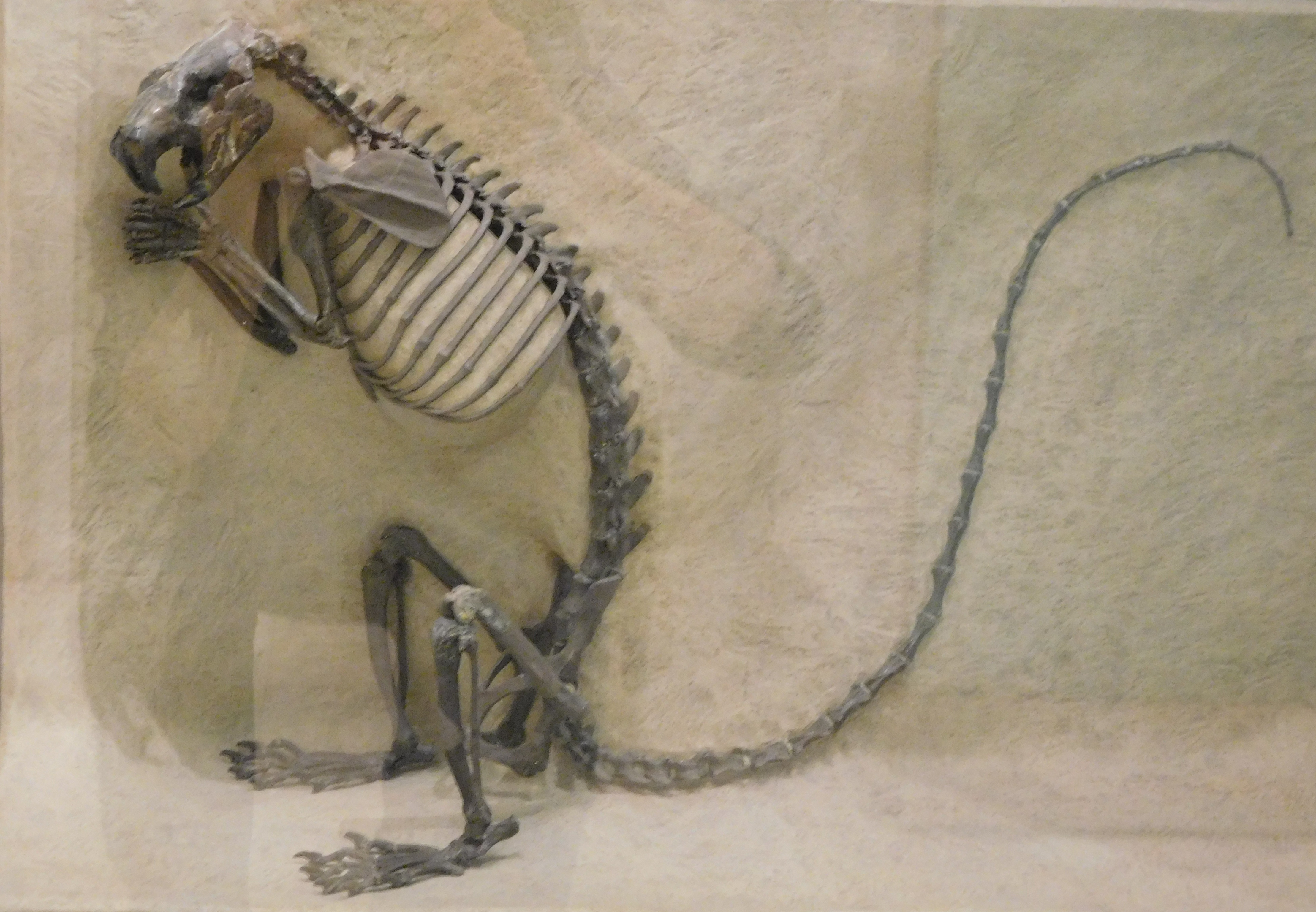 Fossil of Paramys delicatus in the Hall of Advanced Mammals in the American Museum of Natural History, New York